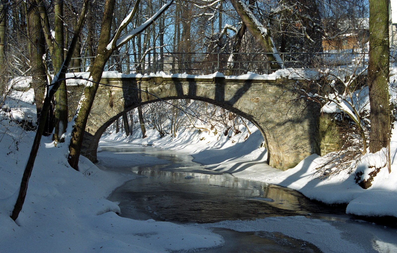 River Třebovka in Česká Třebová.